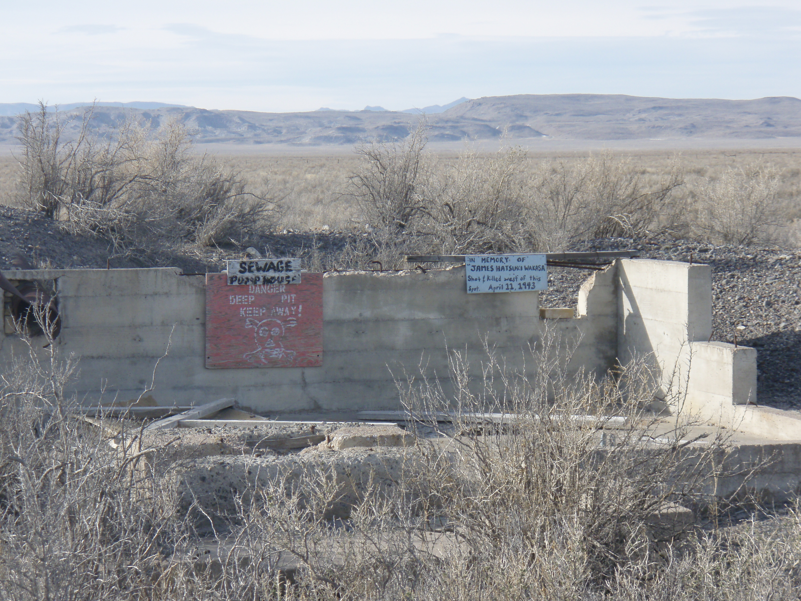 Sewage pumphouse and small memorial at Topaz Japanese Internment camp outside Delta, Utah